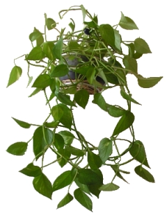 Epipremnum pinnatum (syn. Scindapsus aureus); background is cleaned